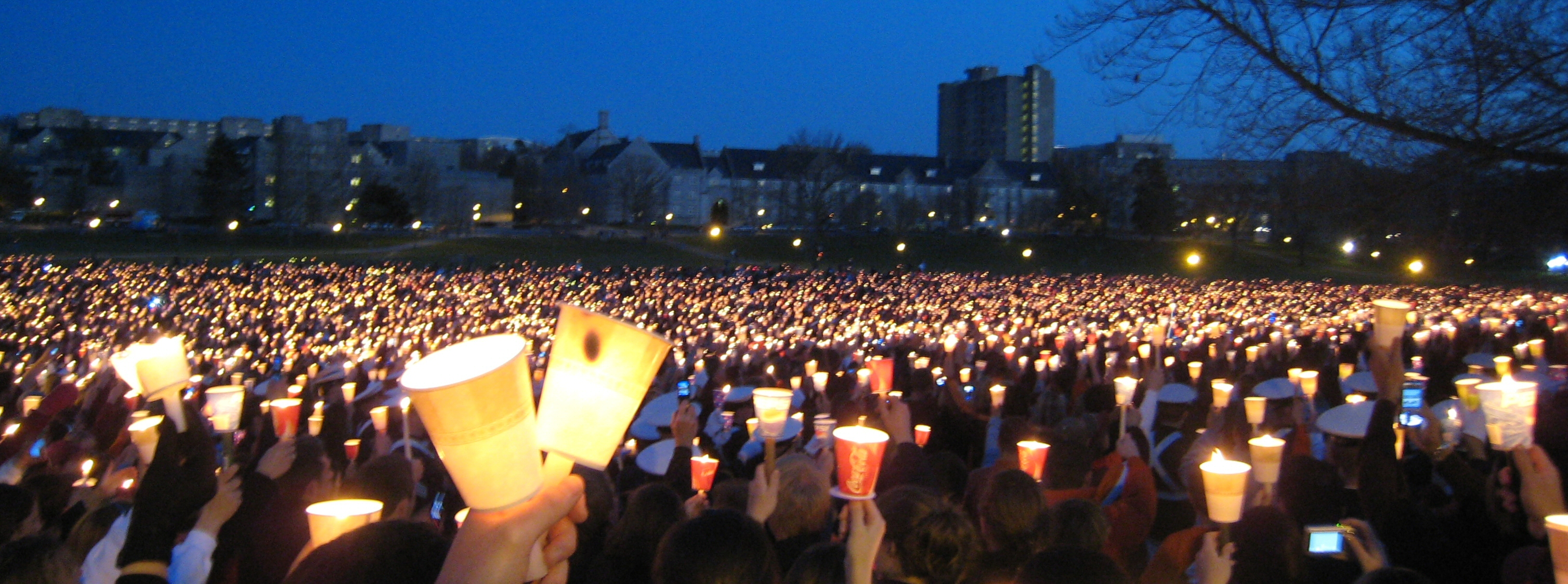 Students at Virginia Tech hold a candlelight vigil after the Virginia Tech massacre